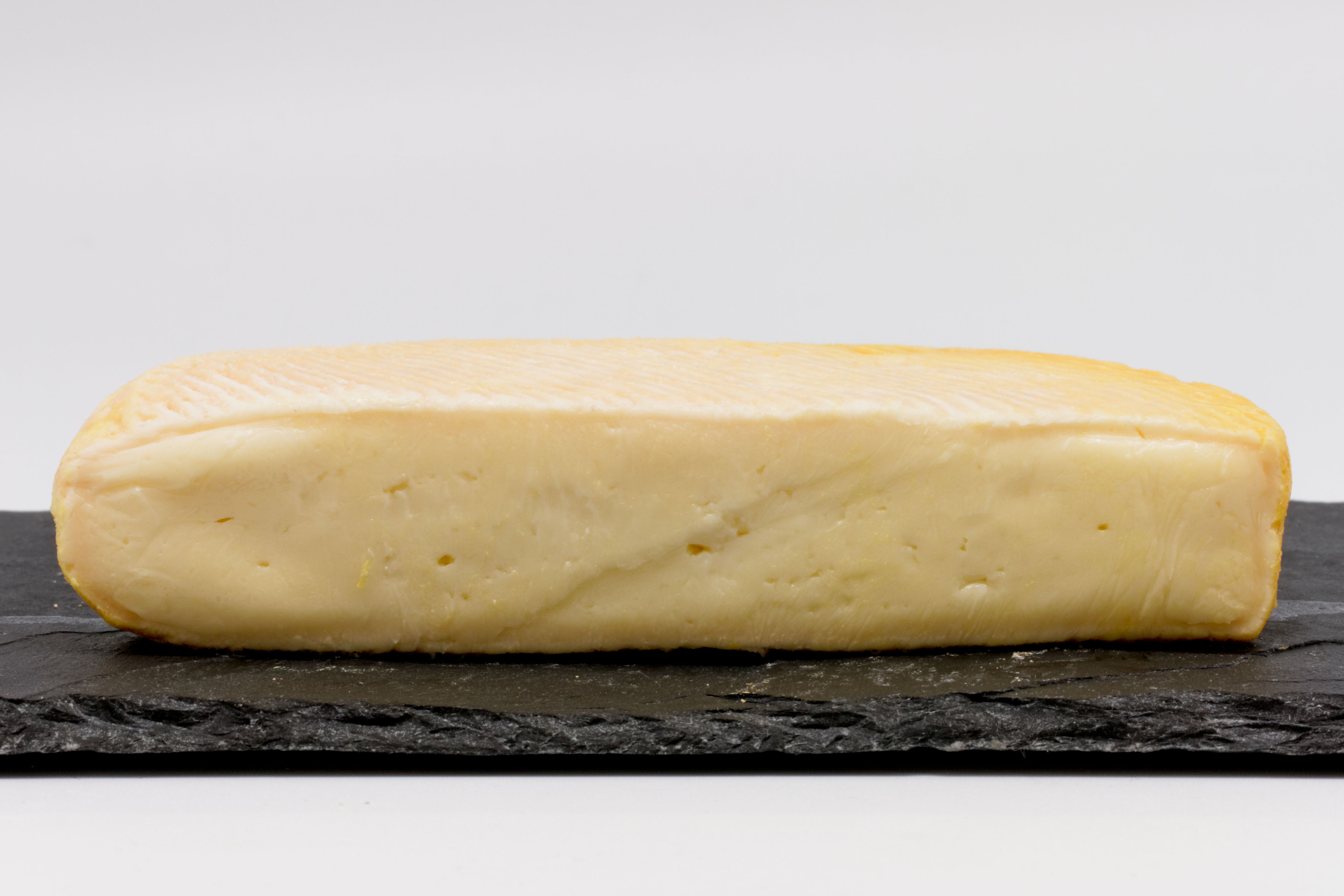 Munster